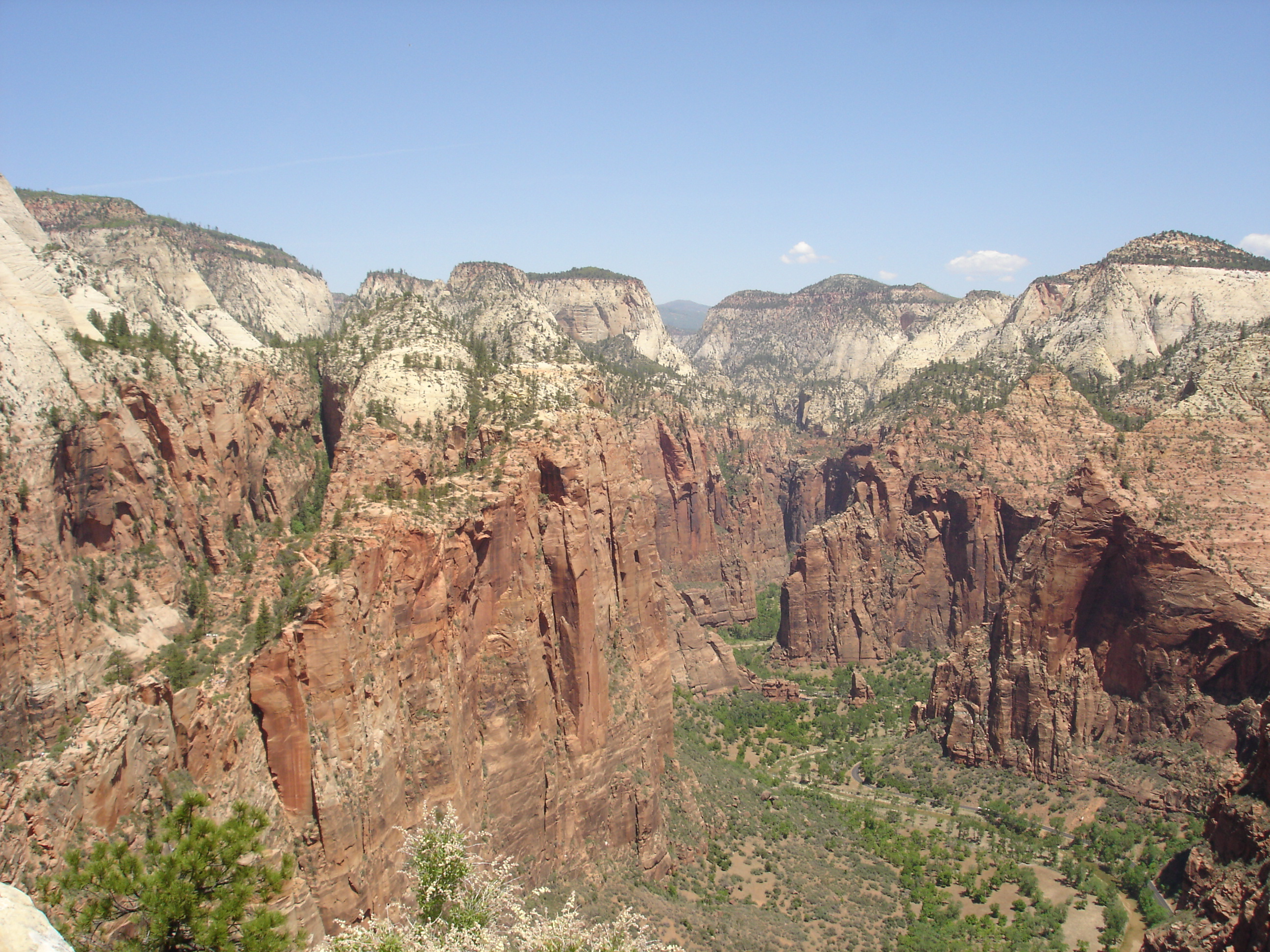 View from top.